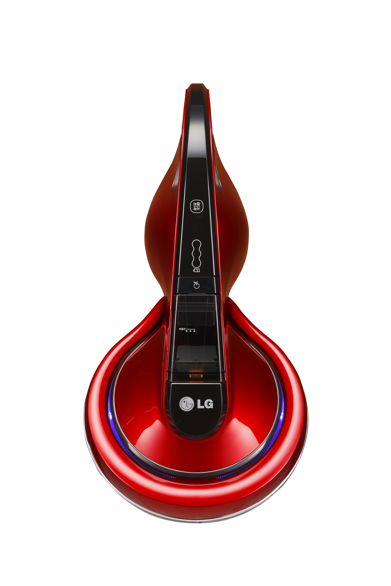 ■ ‘올해의 녹색상품’ 총 5개 제품 선정, 선정 기업 중 최다 □ ‘트롬’ 드럼세탁기/‘휘센’ 에어컨/‘디오스’ 냉장고/‘히든쿡’ 가스레인지/ ‘침구킹’ 침구청소기 등 ■ 2010년부터 5년 연속 ‘올해의 녹색상품’ 선정 쾌거 ■ LG전자 한국영업본부장 최상규 부사장 “실질적으로 고객에게 차별화한 가치 줄 수 있는 친환경 제품 지속 선보일 것” 강조 ※ Social LG전자 ( 에서 관련 보도자료를 확인하실 수 있습니다.